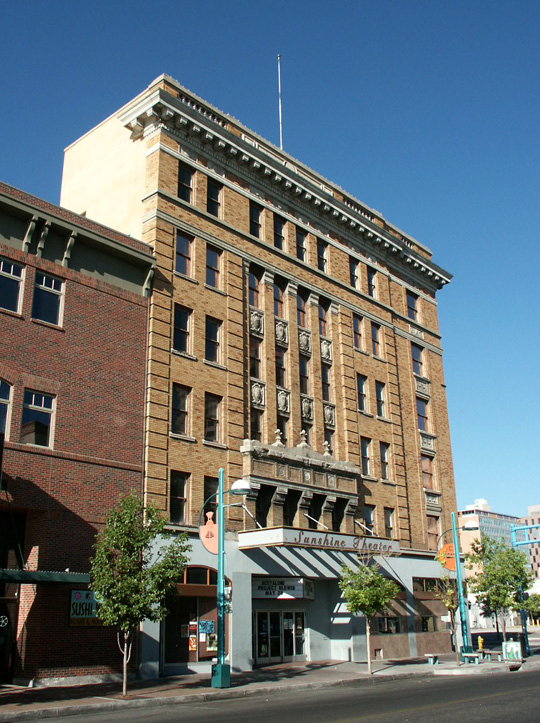 The historic Sunshine Building — in downtown Albuquerque, New Mexico. Built in 1924, it was designed by the El Paso firm of Trost & Trost, originally housing a 920-seat movie theater and offices. Photo by User:camerafiend.